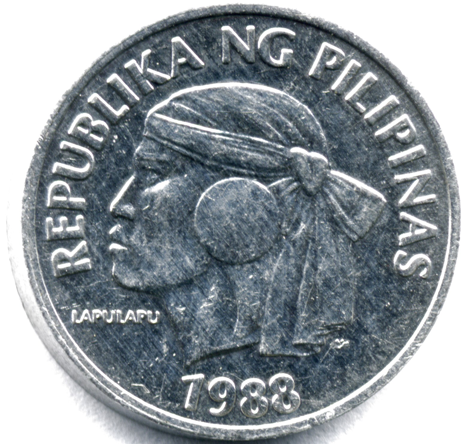 1988 Philippine one sentimo